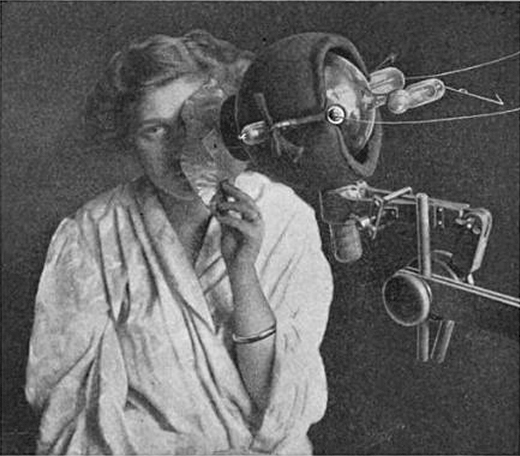 Technic of Roentgenotherapy for epithelioma of the face. Tube in a localizing shield; perforated sheet of x-ray metal securely fashioned to the surface by adhesive plaster.